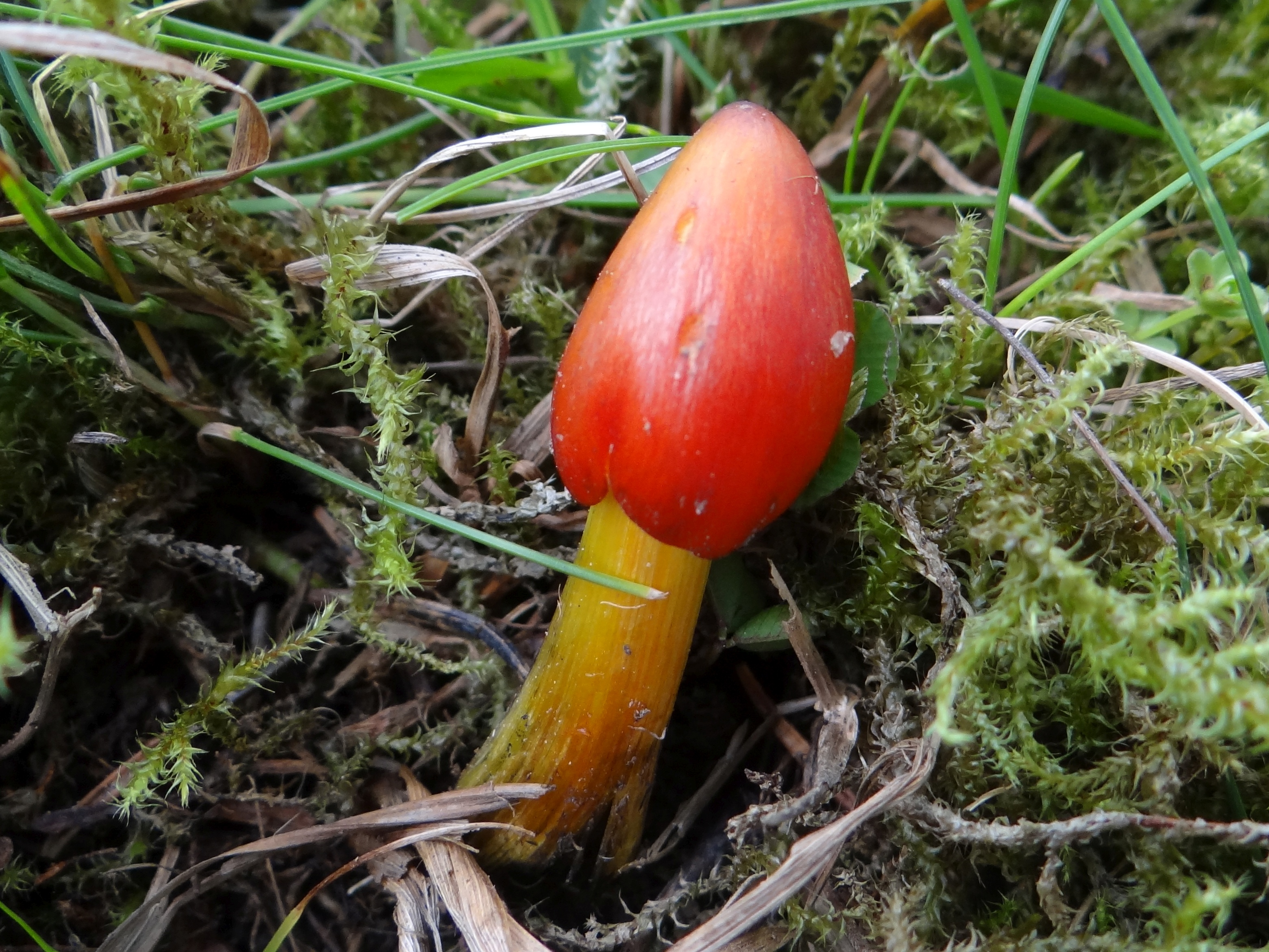 Hygrocybe conica (location: Slovakia, Osturnia)